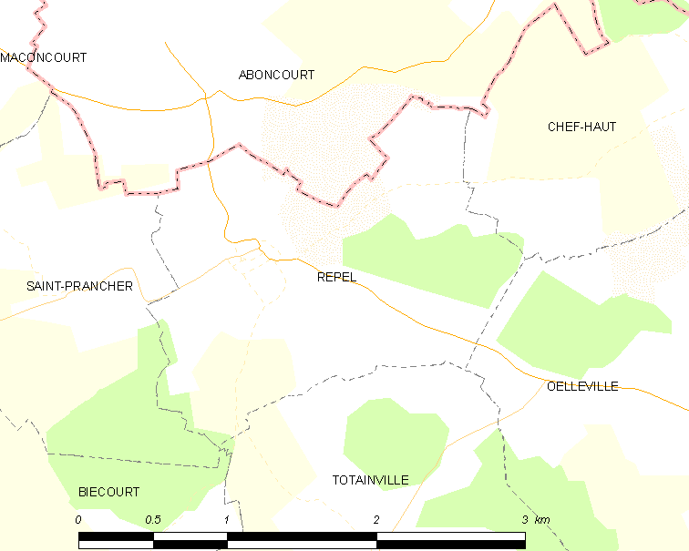 Map of French municipality Repel